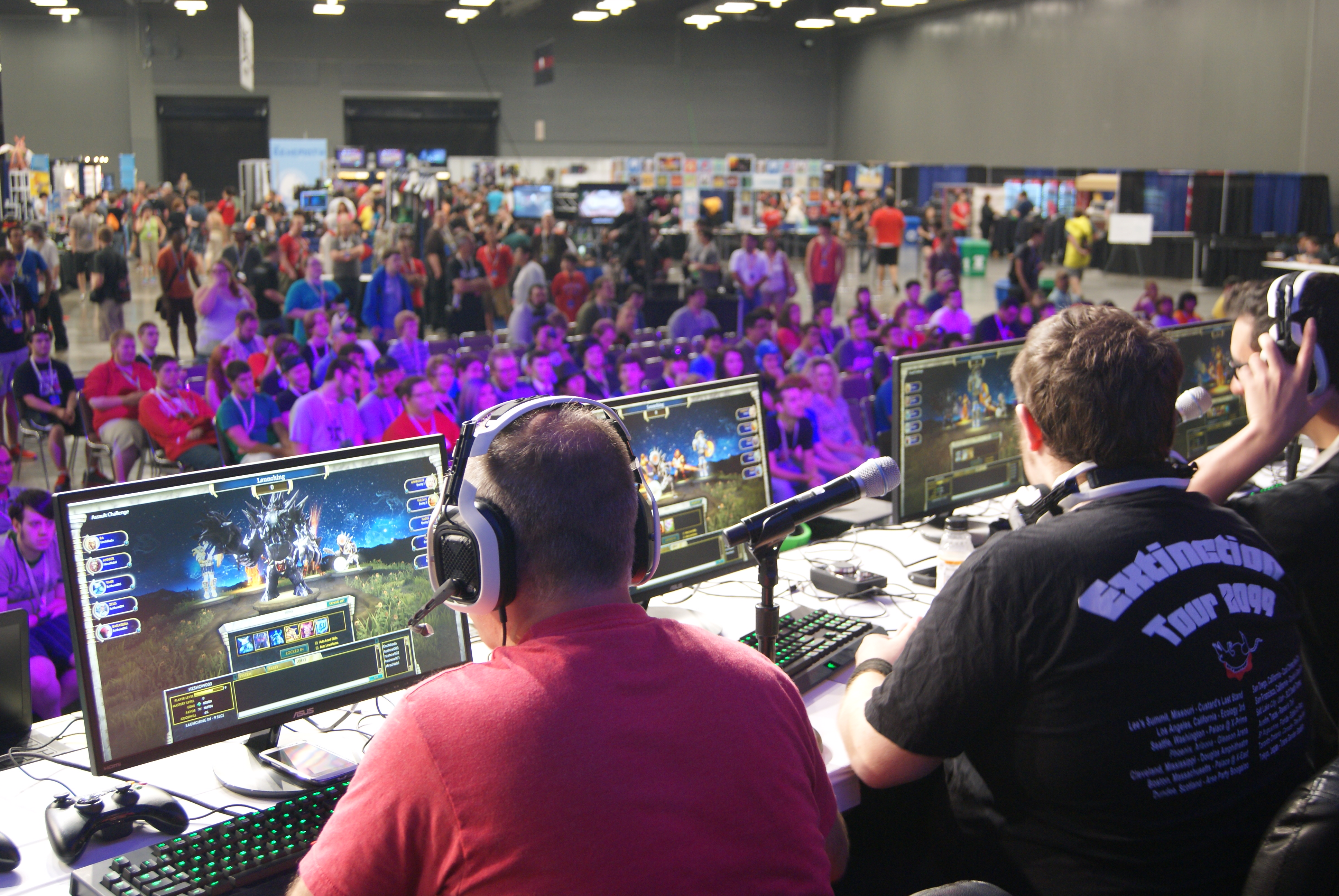 Rooster Teeth Expo 2013